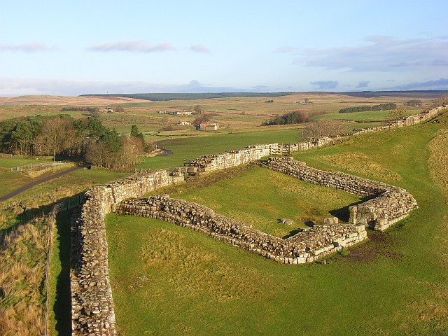 Milecastle 42, Hadrian's Wall Looking down from a crag to south. Cawfields Farm and the Border country are beyond.